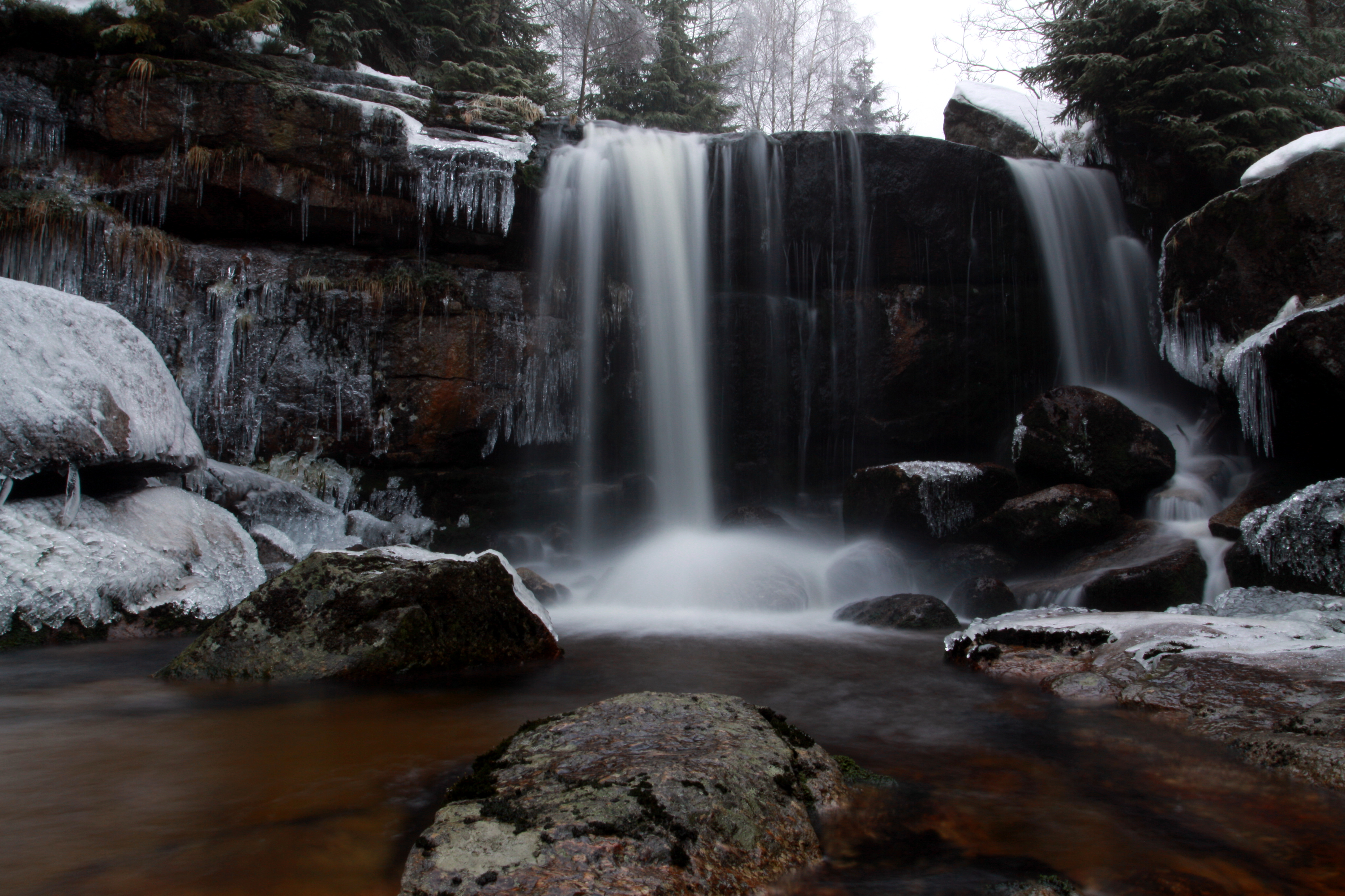 Nature reserve Jedlový důl in winter 2013/2014 in Liberec District, Czech Republic - Google Maps - Google Earth